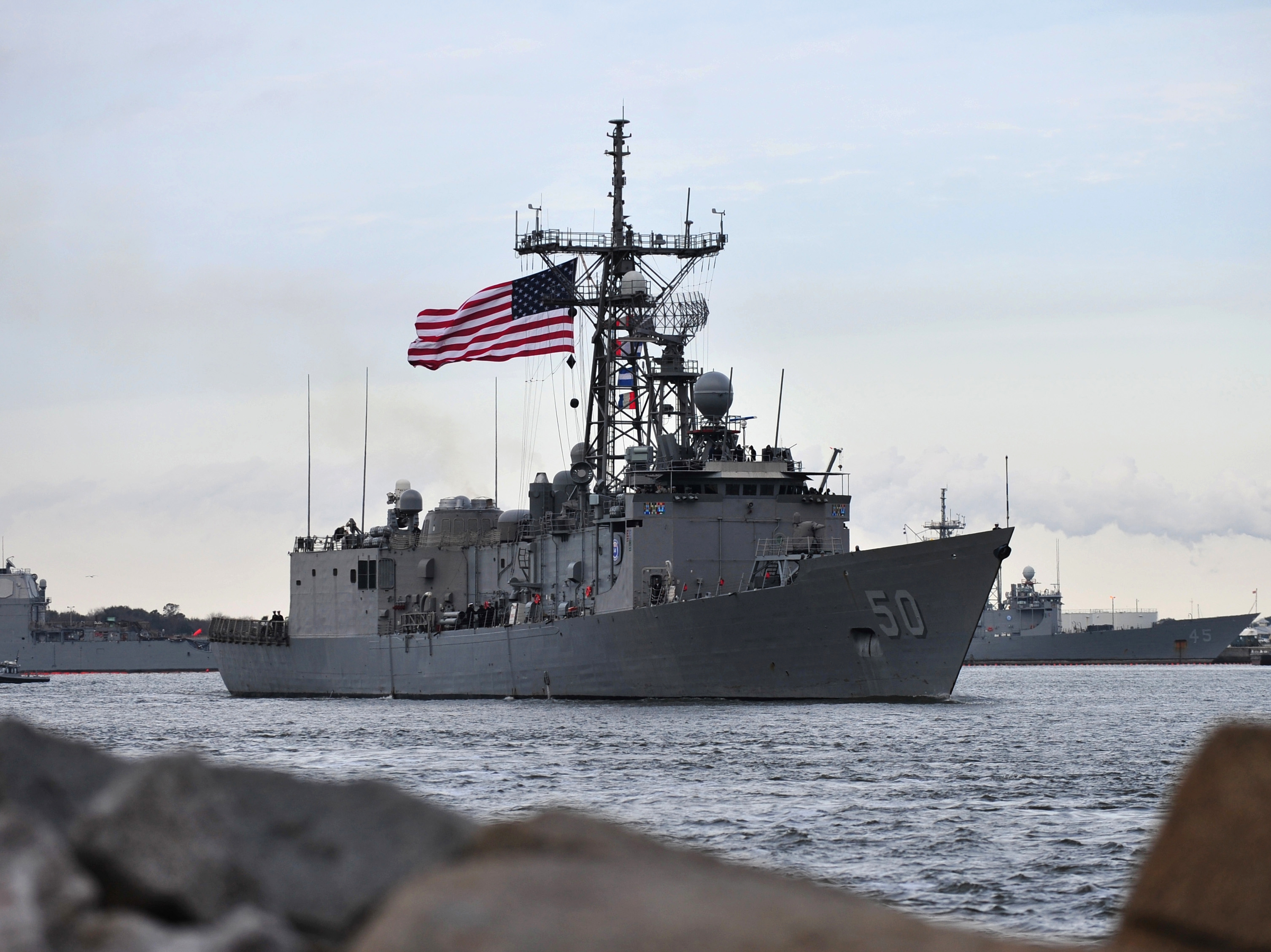 The U.S. Navy guided-missile frigate USS Taylor (FFG-50) departs Naval Station Mayport, Florida (USA), for a seven-month deployment to the U.S. 5th and 6th Fleet areas of responsibility. This is Taylor´s final deployment as the ship is scheduled to be decommissioned in 2015.